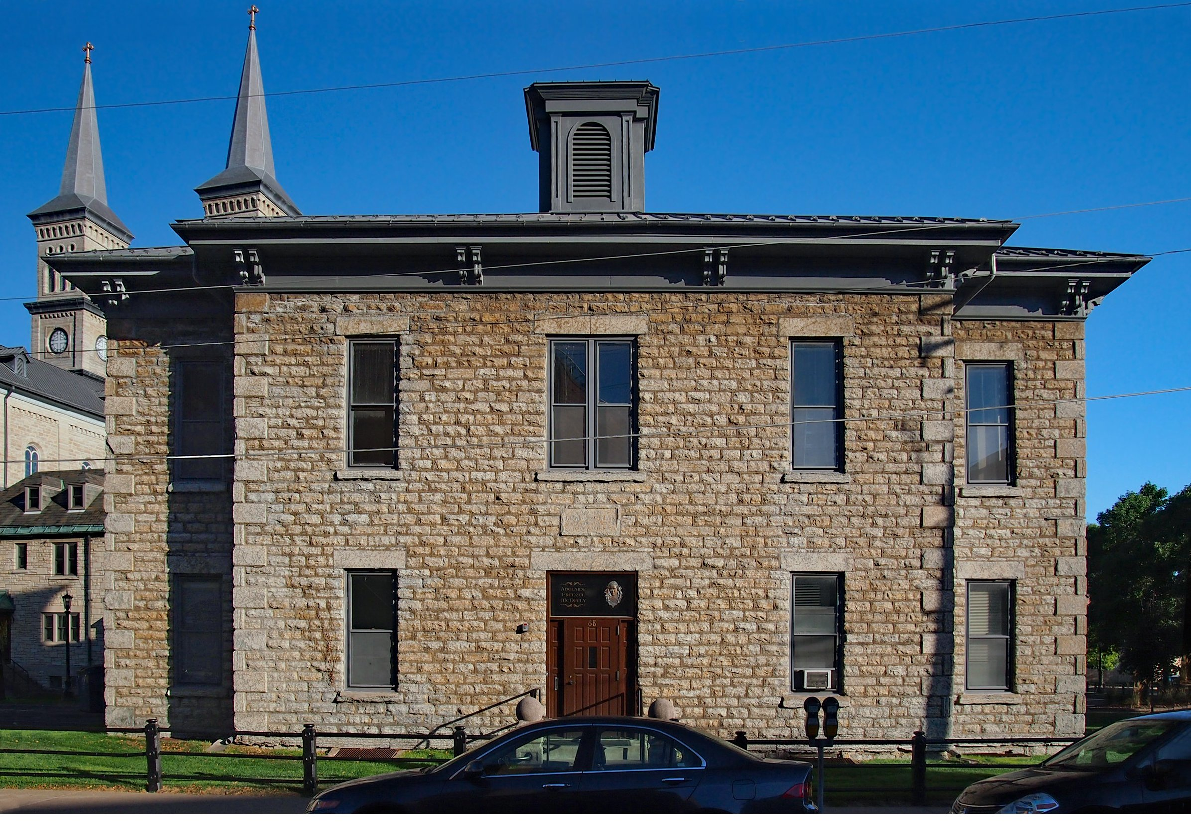 Assumption School, St Paul, Minnesota, USA